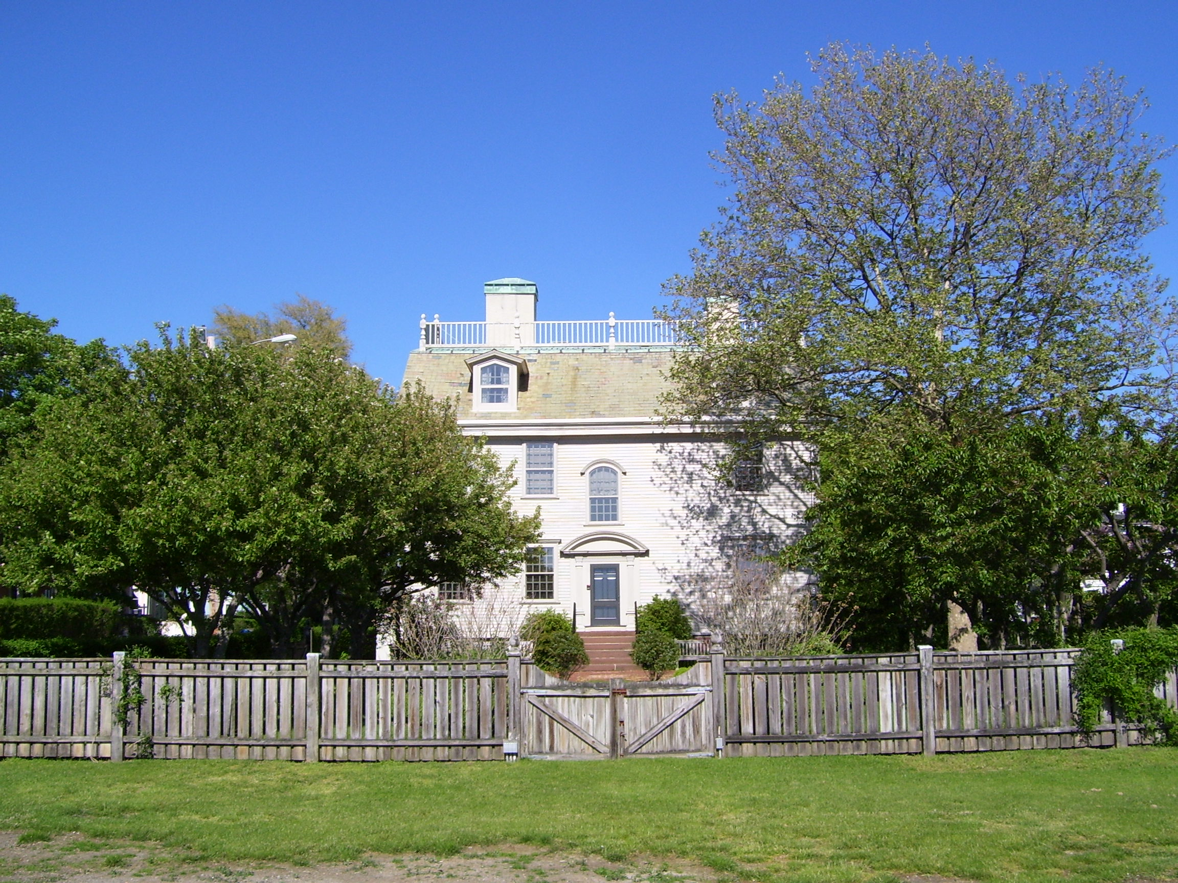 This is my 2008 photo of Hunter House from the water side in Newport, Rhode Island RI.